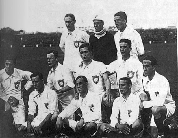 The Brazilian national football team during the 1917 Copa América.